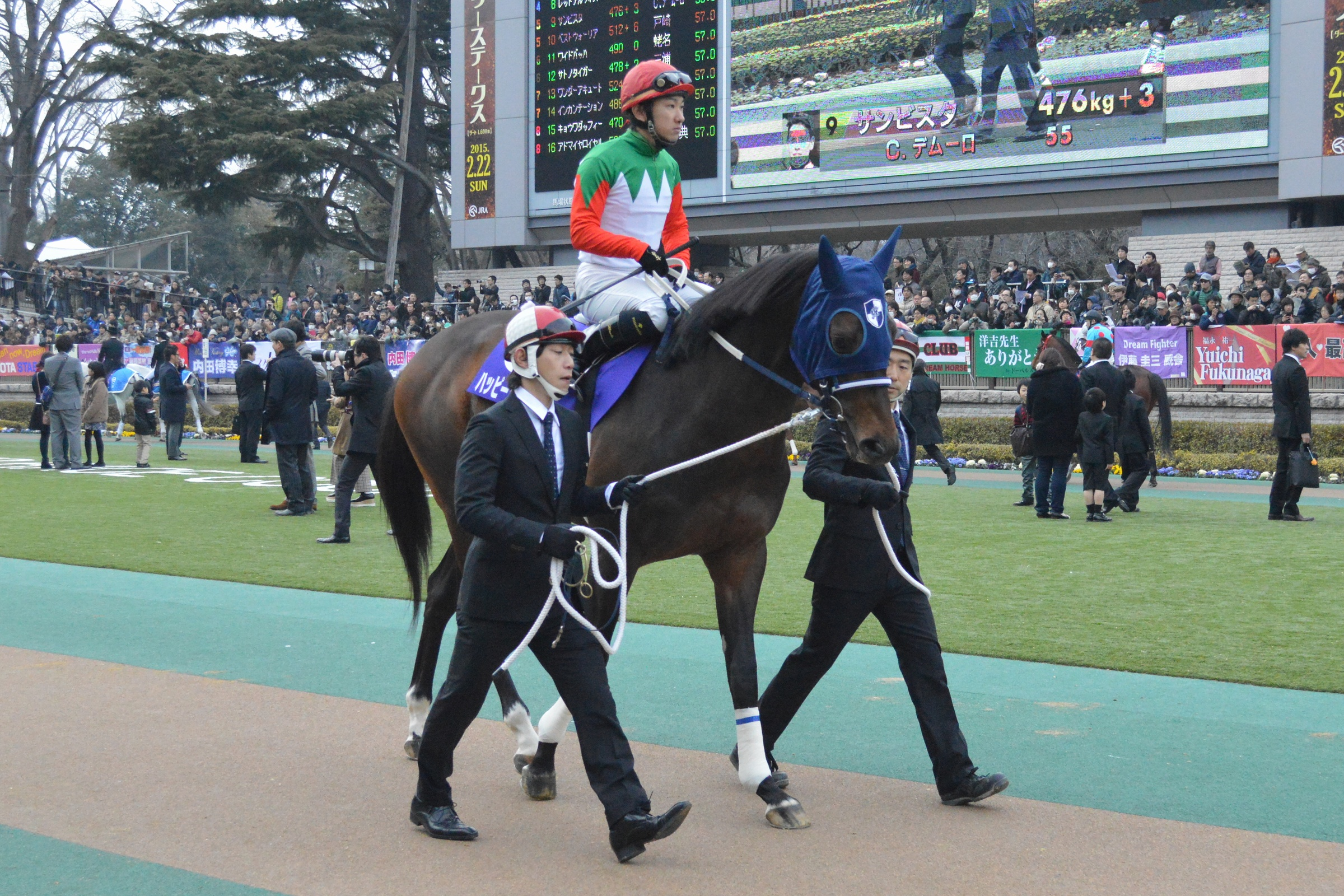 Japanese race horse Happy Sprint at Tokyo racecourse. Tokyo (JPN) 22 Feb 2015 February Stakes (Grade 1) (4yo+) (Dirt) 1m Standard RankHorse NameOddsAgeWgtTrainerJockey1stCopano Rickey (JPN)11/10FH59-0Akira MurayamaYutaka Take2ndIncantation (JPN)128/10H59-0Tomohiko HatsukiHiroyuki Uchida3rdBest Warrior (USA)54/10H59-0Sei IshizakaKeita Tosaki4th - 10th/omission11thHappy Sprint (JPN)27/1C49-0Junpei MorishitaHiroto Yoshihara